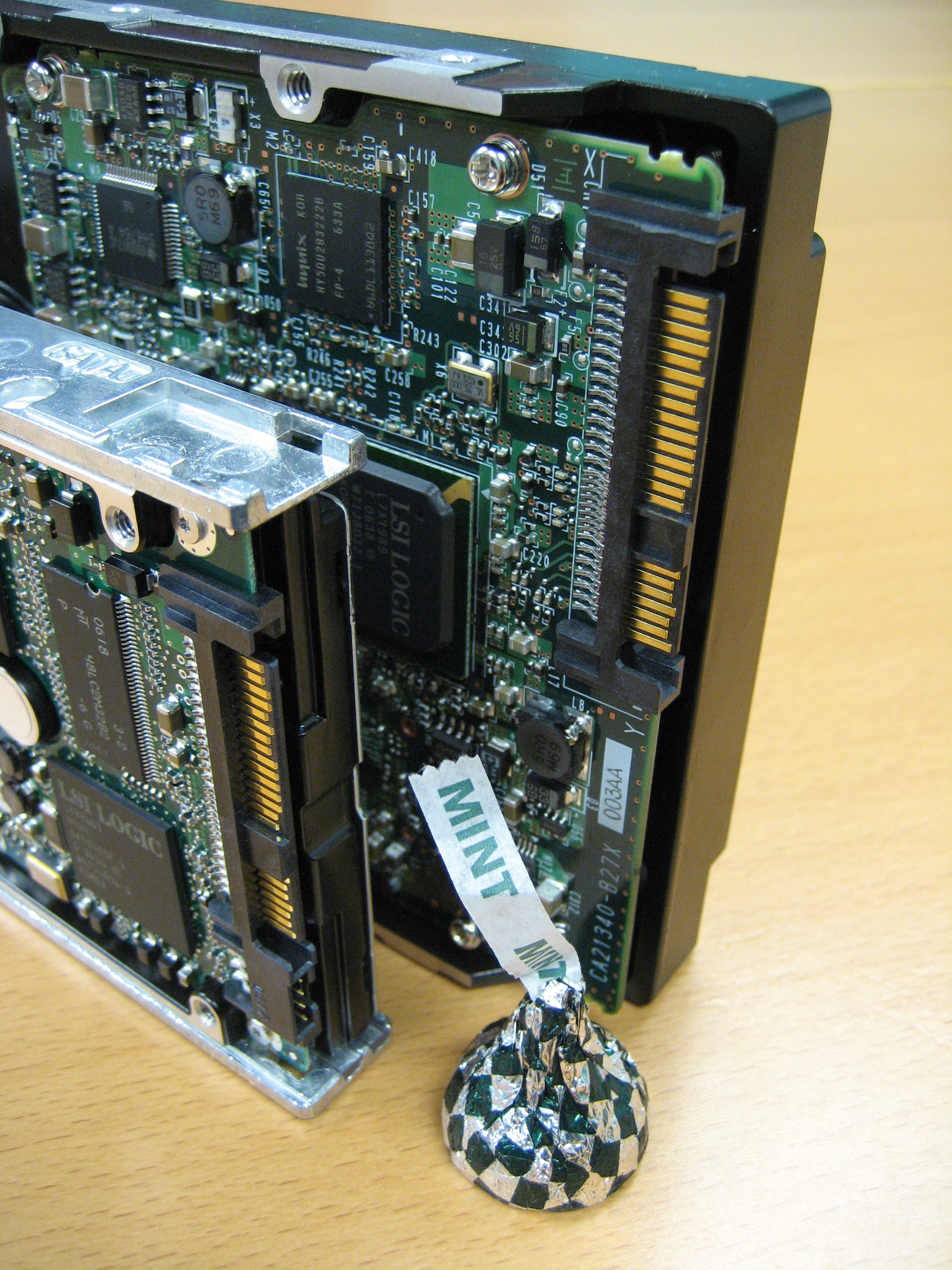 SAS Connectors on Seagate 10K 73Gb 2.5in. & Fujitsu 15K 73Gb 3.5in Hard Drives.